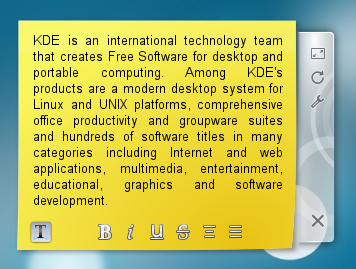 An example of plasmoid in KDE 4.3